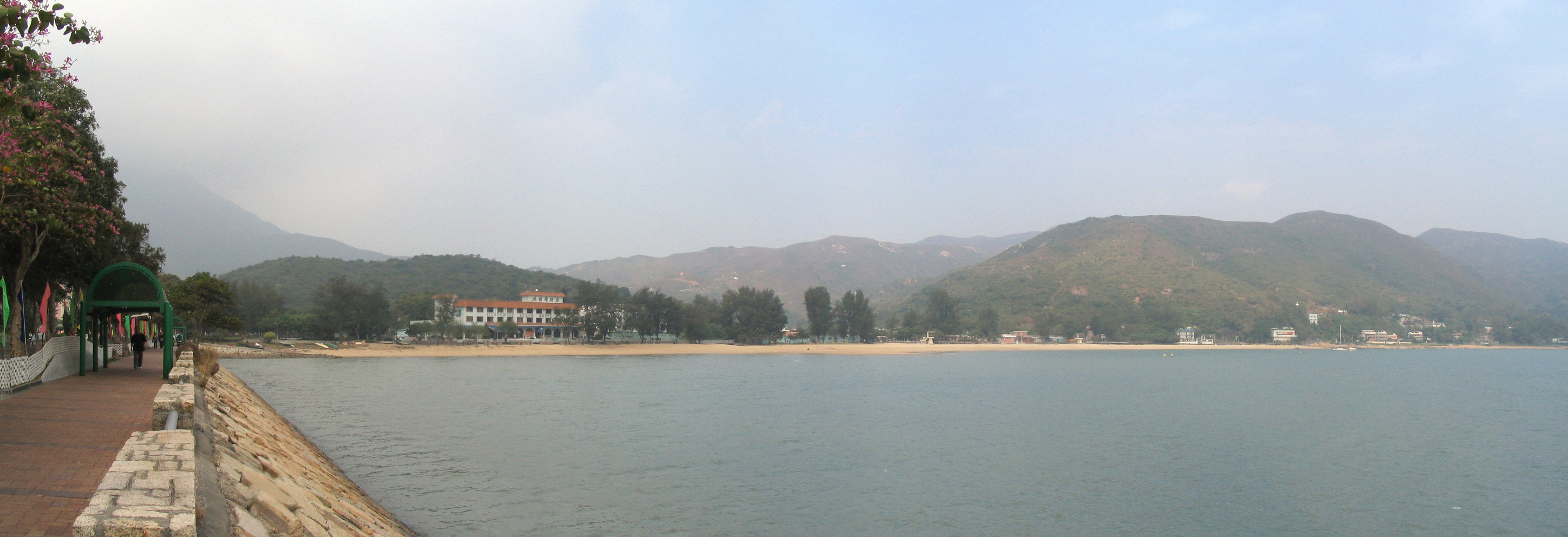 Panoramic photo of Silver Mine Bay, combined from 2115044922, 2115045504, 2115045998 and 2114268627